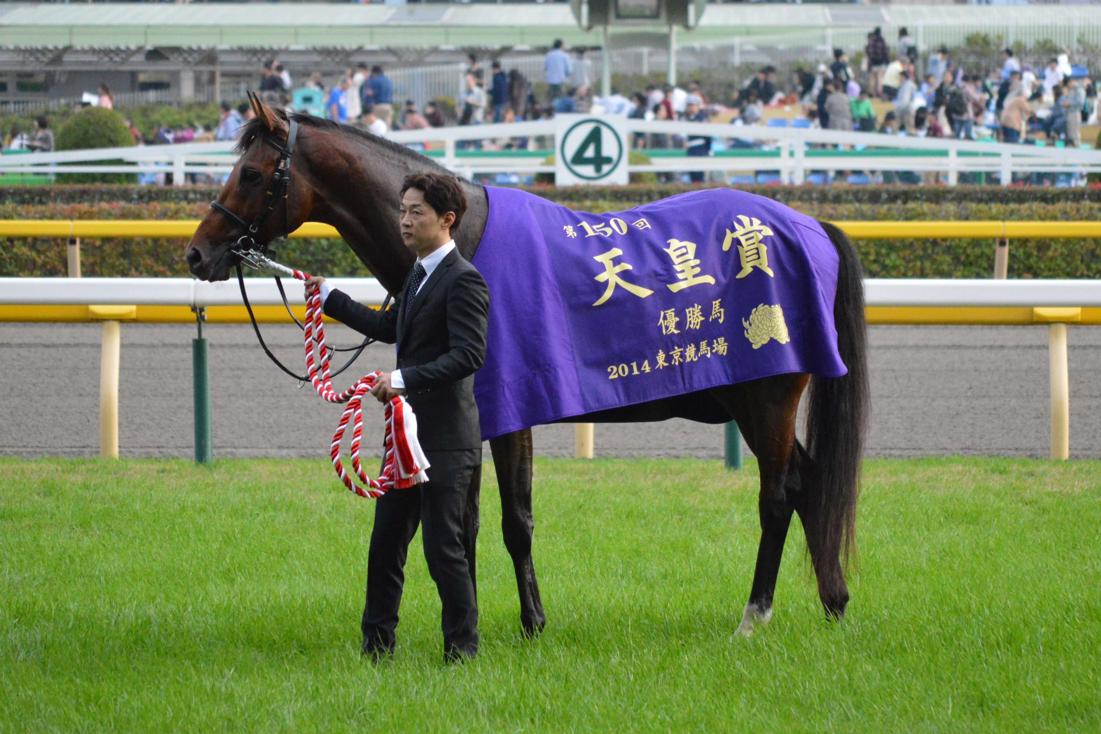 Japanese race horse Spielberg at Tokyo racecourse. Tokyo (JPN) 02 Nov 2014 Tenno Sho (Autumn) (Grade 1) (3yo+) (Turf) 1m2f Firm RankHorse NameOddsAgeWgtTrainerJockey1stSpielberg (JPN)10/1H59-2Kazuo FujisawaHiroshi Kitamura2ndGentildonna (JPN)37/10M58-11Sei IshizakaKeita Tosaki3rdIsla Bonita (JPN)9/5FC38-11Hironori KuritaChristophe-Patrice Lemaire4th - 18th/omission